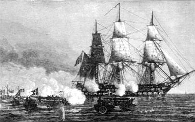 Danish gunboats attack the British ship of line HMS Africa in Drogden (between Saltholm and Amager), 1808